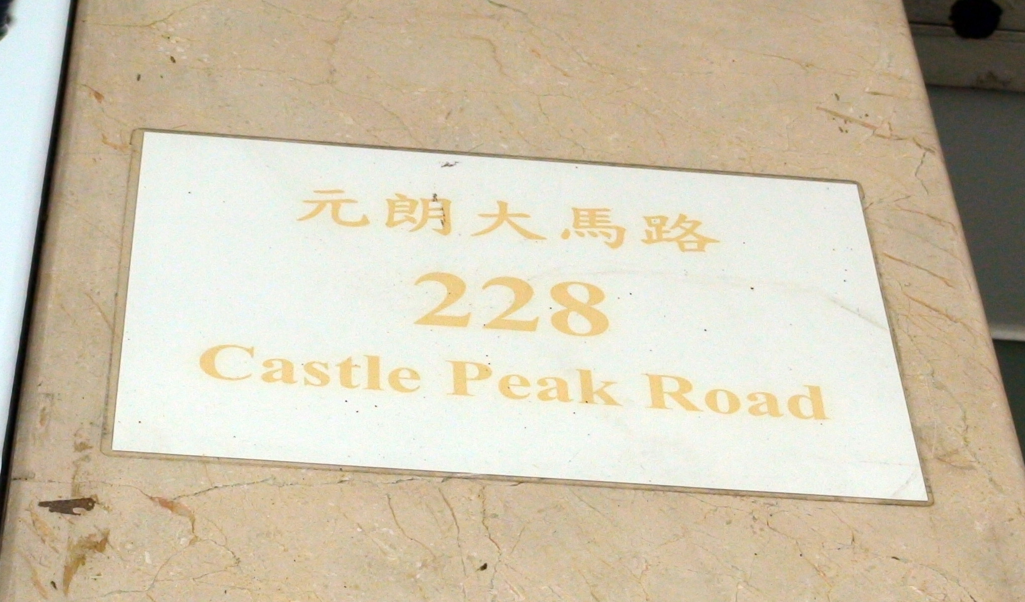 Castle Peak Road -Yuen Long (元朗大馬路) is the main road in Yuen Long, Hong Kong with road plaque shown 元朗大馬路 (the unofficial name).